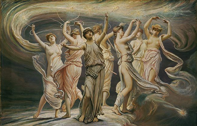 The Pleiades